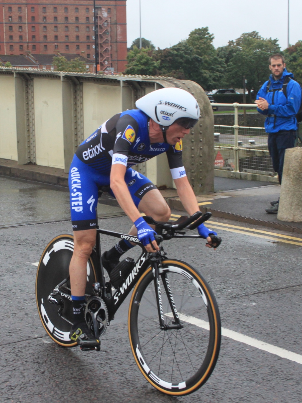 Dan Martin, leader of the Etixx-QuickStep team on the 2016 Tour of Britain, crosses Junction Lock in Bristol during the individual time trial.